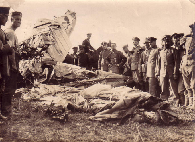 Leutnant Kurt Wintgens in Front of one of his air victories